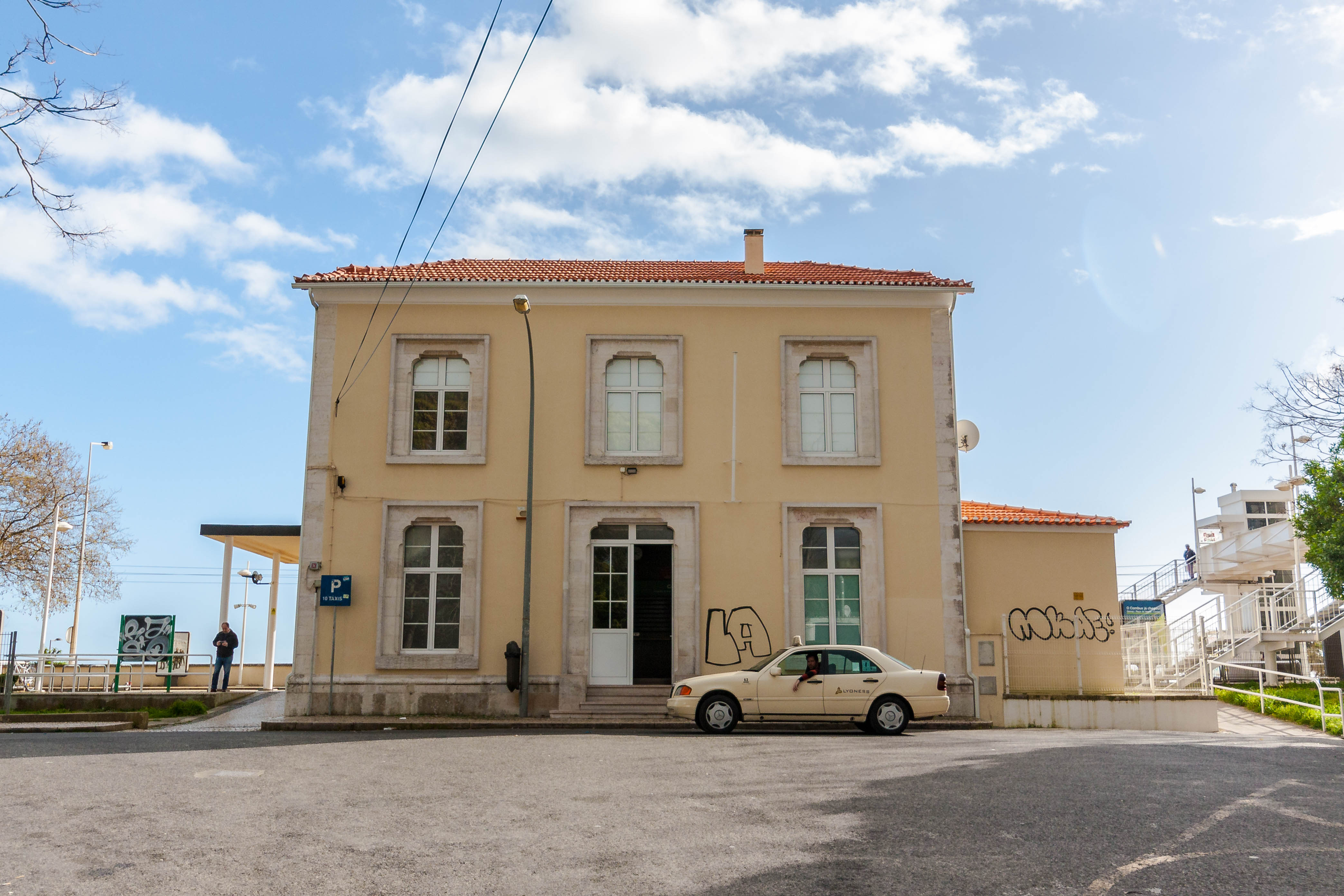 Caxias train station on Cascais railway line, Portugal